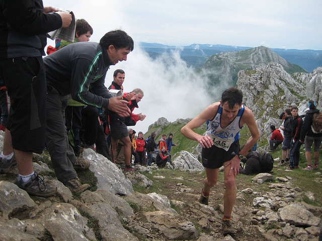 Zegama-Aizkorri trail-running.